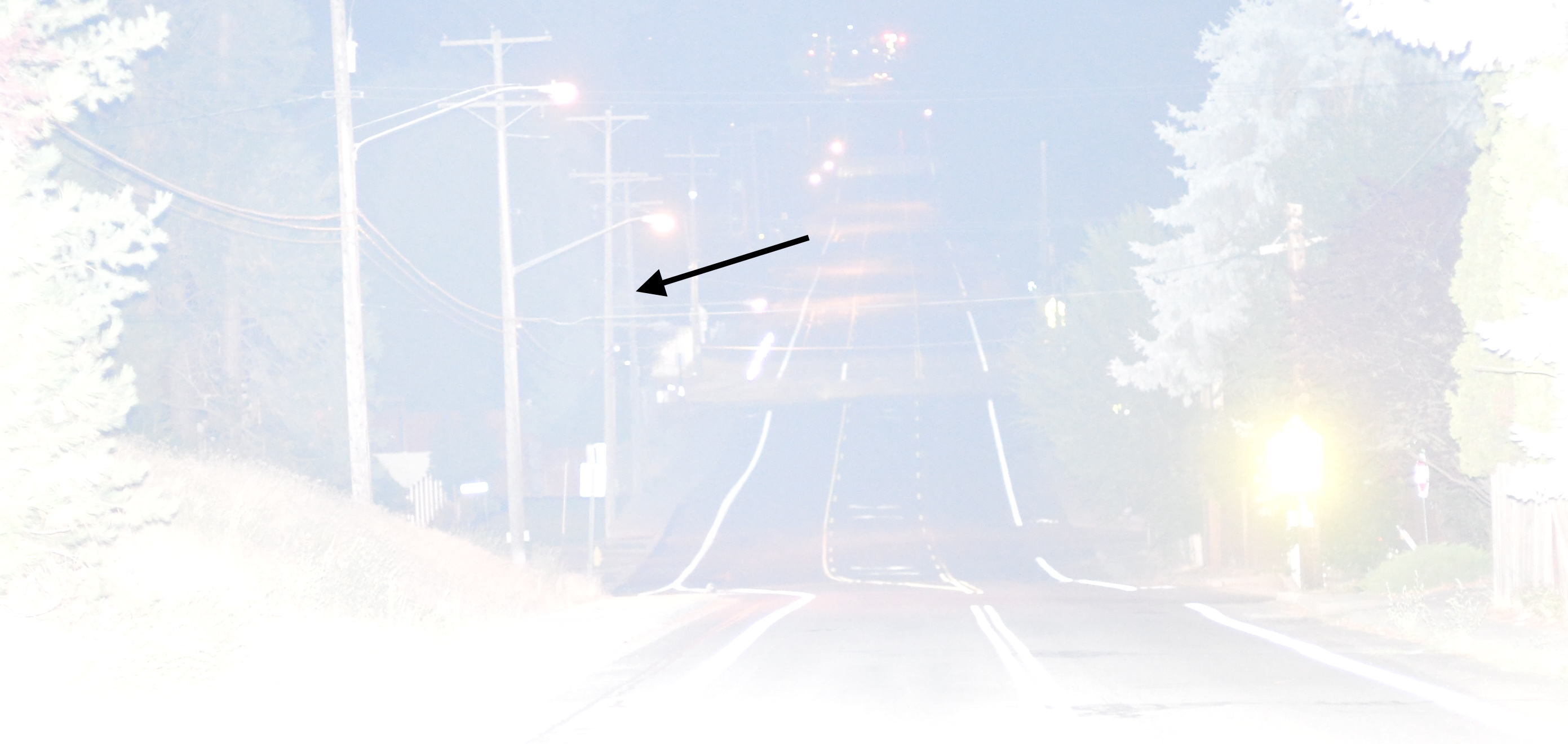 An example of using too high an ISO setting (ISO 12,800) and too large of an aperture (f/1.8) at night.